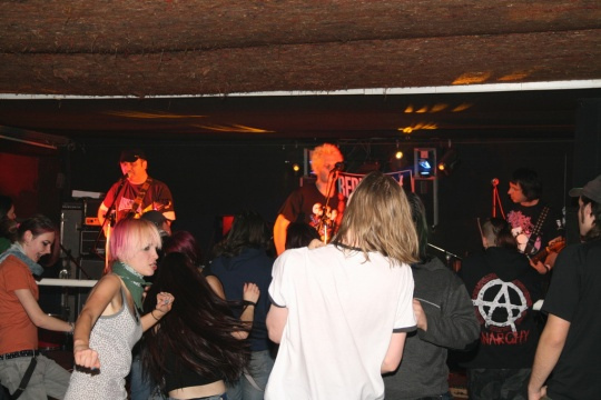 A concert photo of C.A.F.B..